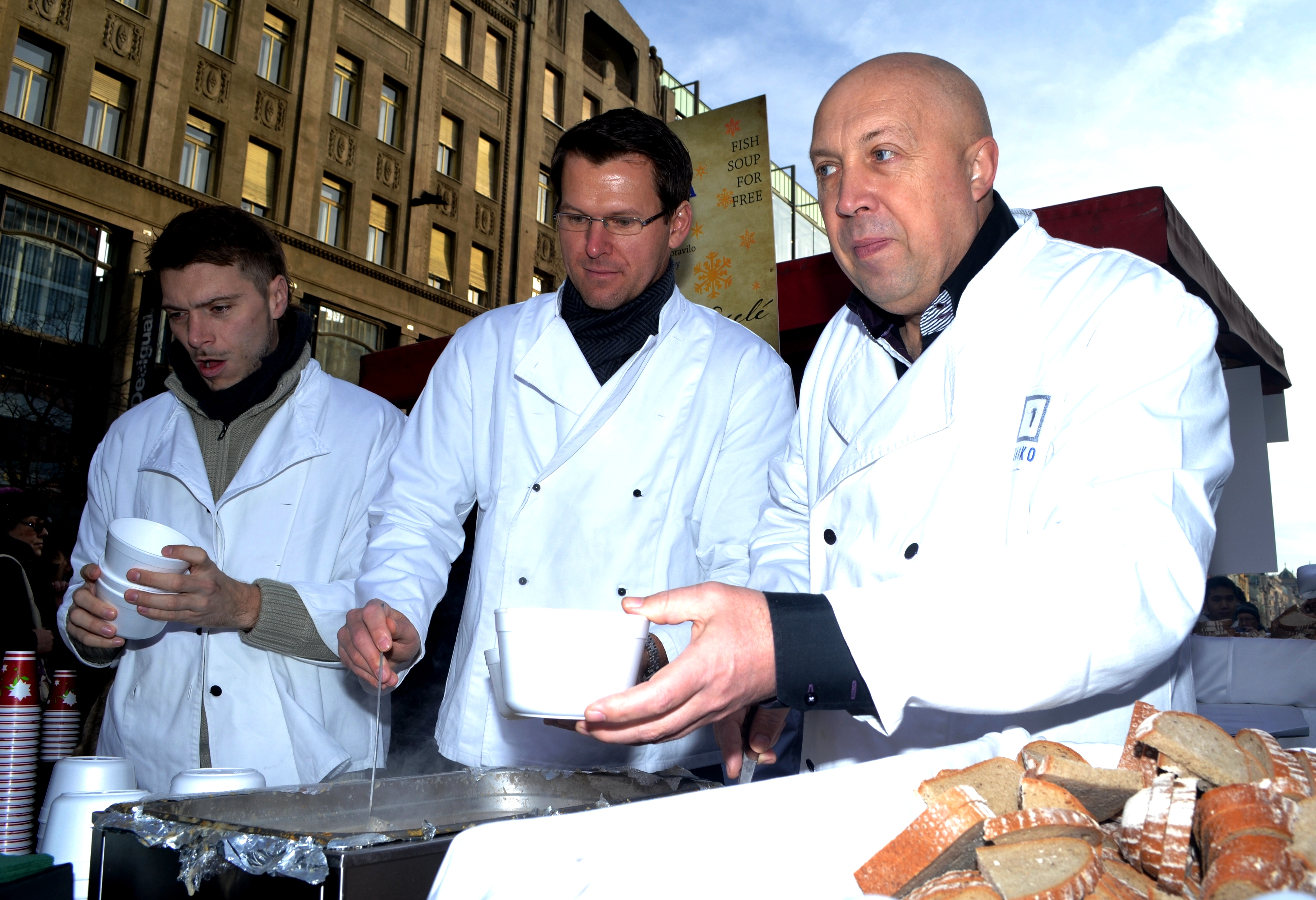 Oldřich Lomecký (right), Mayor of Prague 1